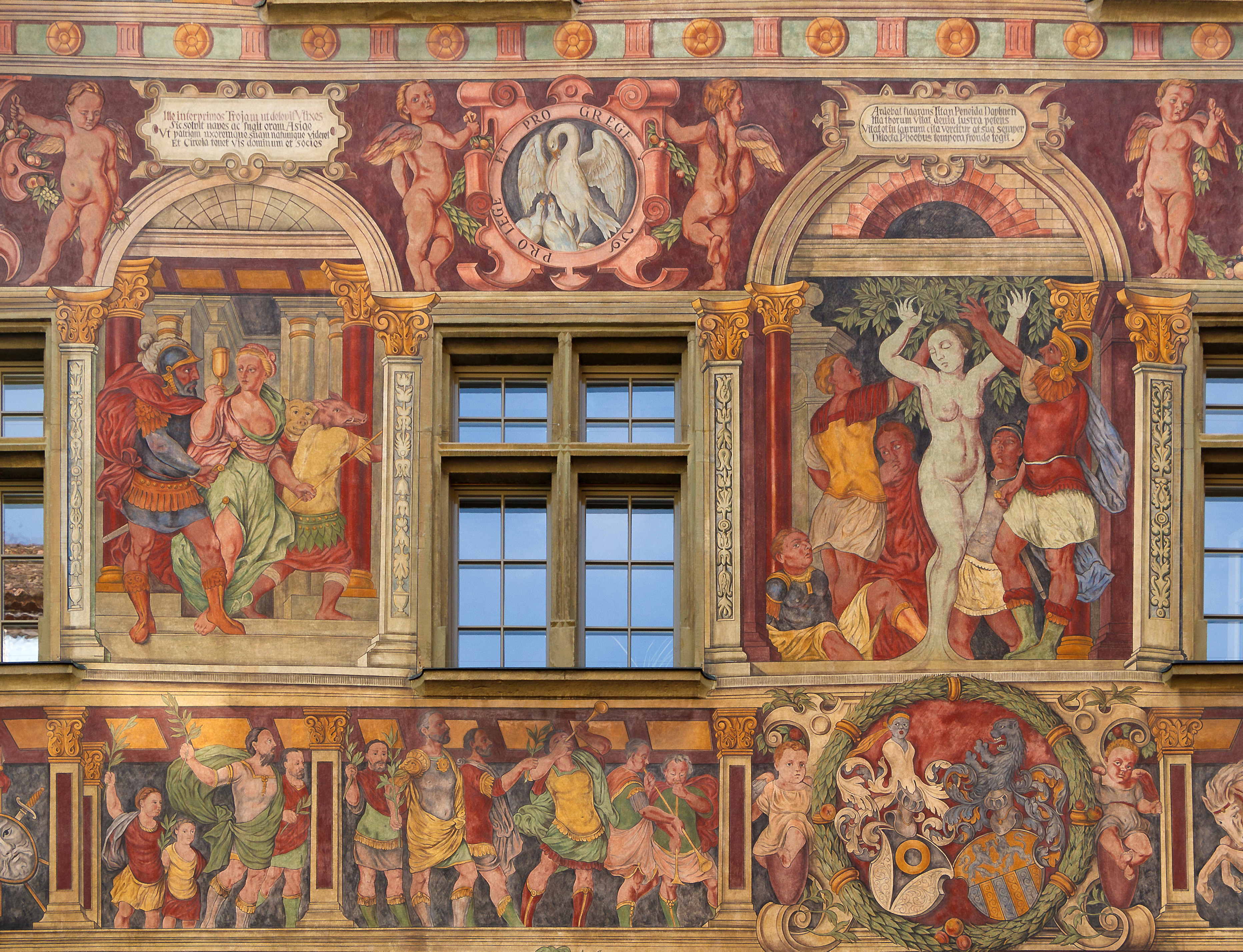 Mural, depicting a triumphal march (lower row left), the coat of arms of the owner (lower row right), Odysseus at Circe (left between the windows), and the tree of the Lotus-eaters right between the windows); part of the front of the Haus zum Ritter, Vordergasse 65, Schaffhausen, Switzerland